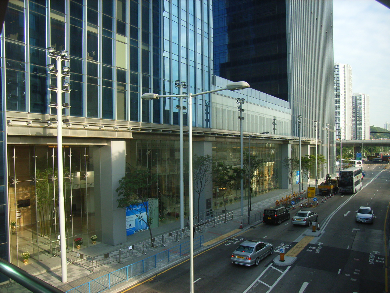 觀塘223宏利金融中心 (Manulife Financial Centre)